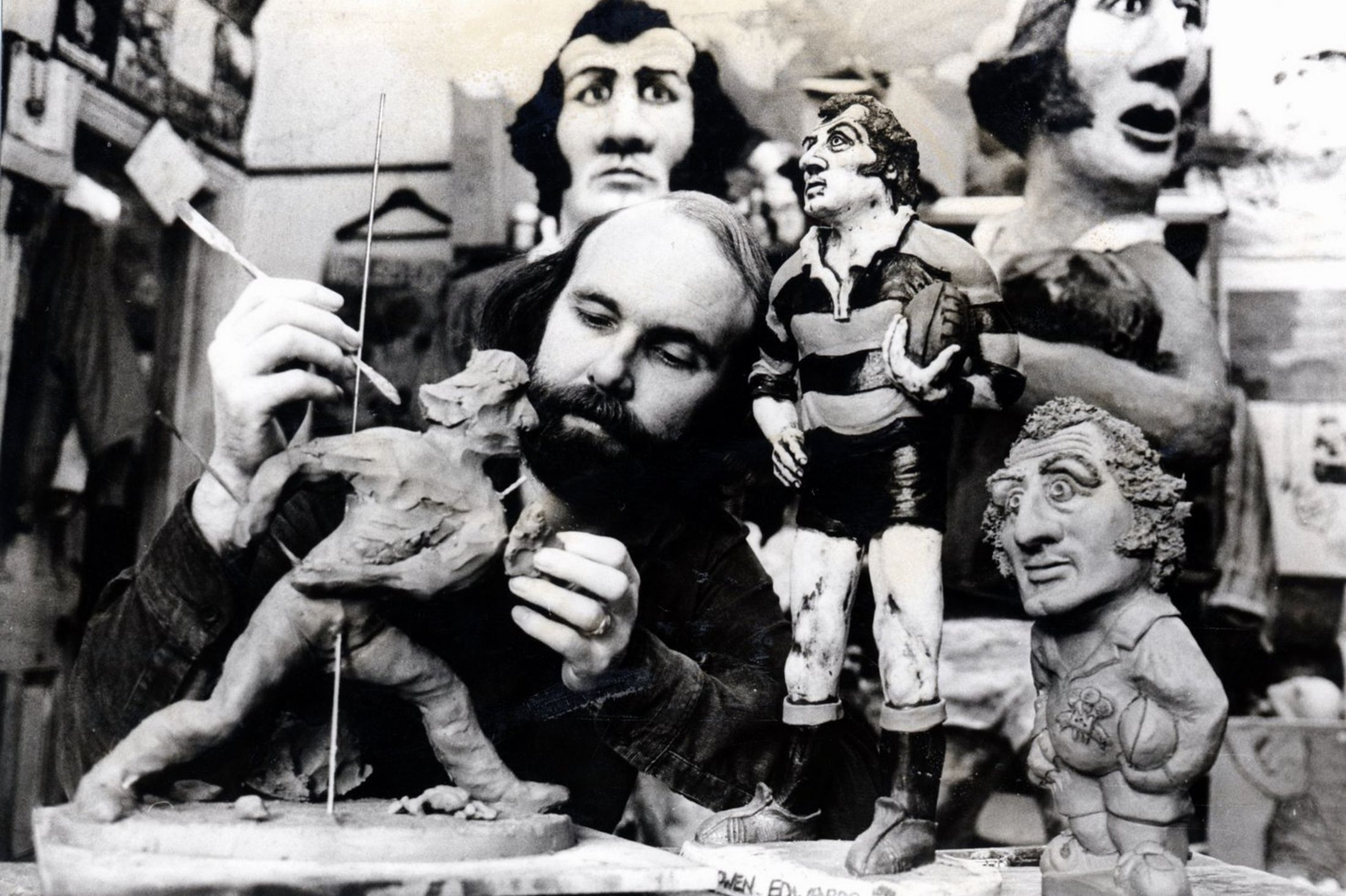 John working during the 70's